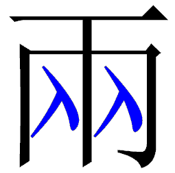 Chinese radical # 11 (legs)